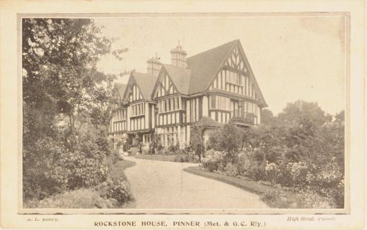 'Rockstone House' in Pinner- completed in 1911 for Manuel and Janie Terrero who used it as a base for their activities on behalf of the WSPU